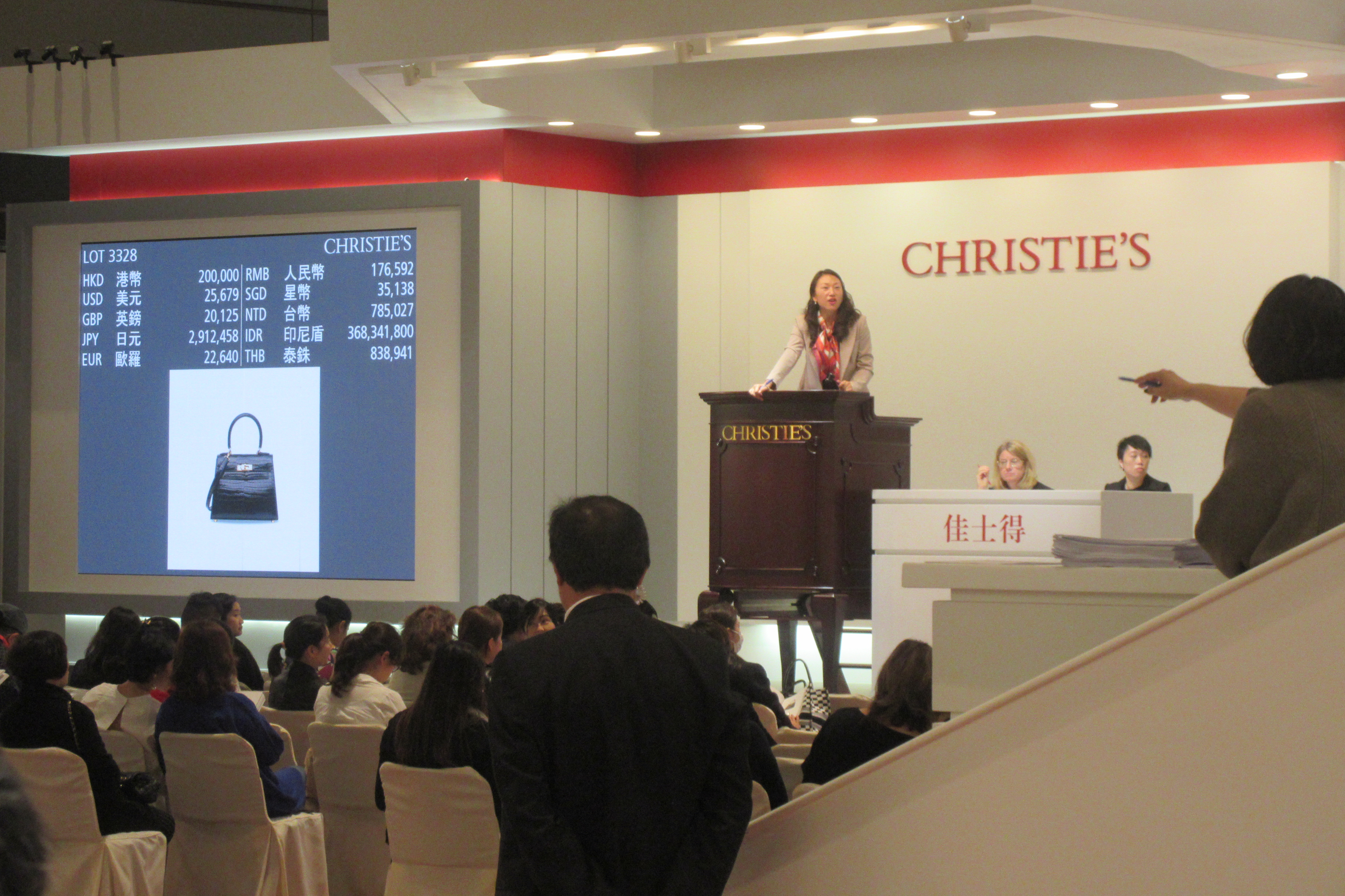 HK 灣仔北 Wan Chai North 香港會展 HKCEC 佳士得 拍賣 Christie's Auction at work in November 2018